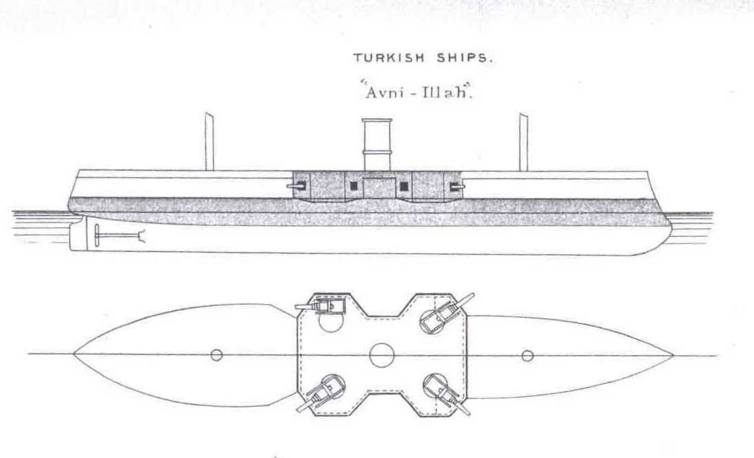 Turkish ironclad Avnillâh, launched 1869, and serving from 1870. The Avnillâh was later rearmed with light guns, serving as a gunboat, and in this capacity it was sunk by the Italian armoured cruiser Guiseppe Garibaldi at Beirut in February 1912.